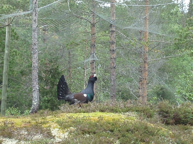 Tiur (capercaille ; tetrao urogallus) in Namsskogan wildlife park, Norway